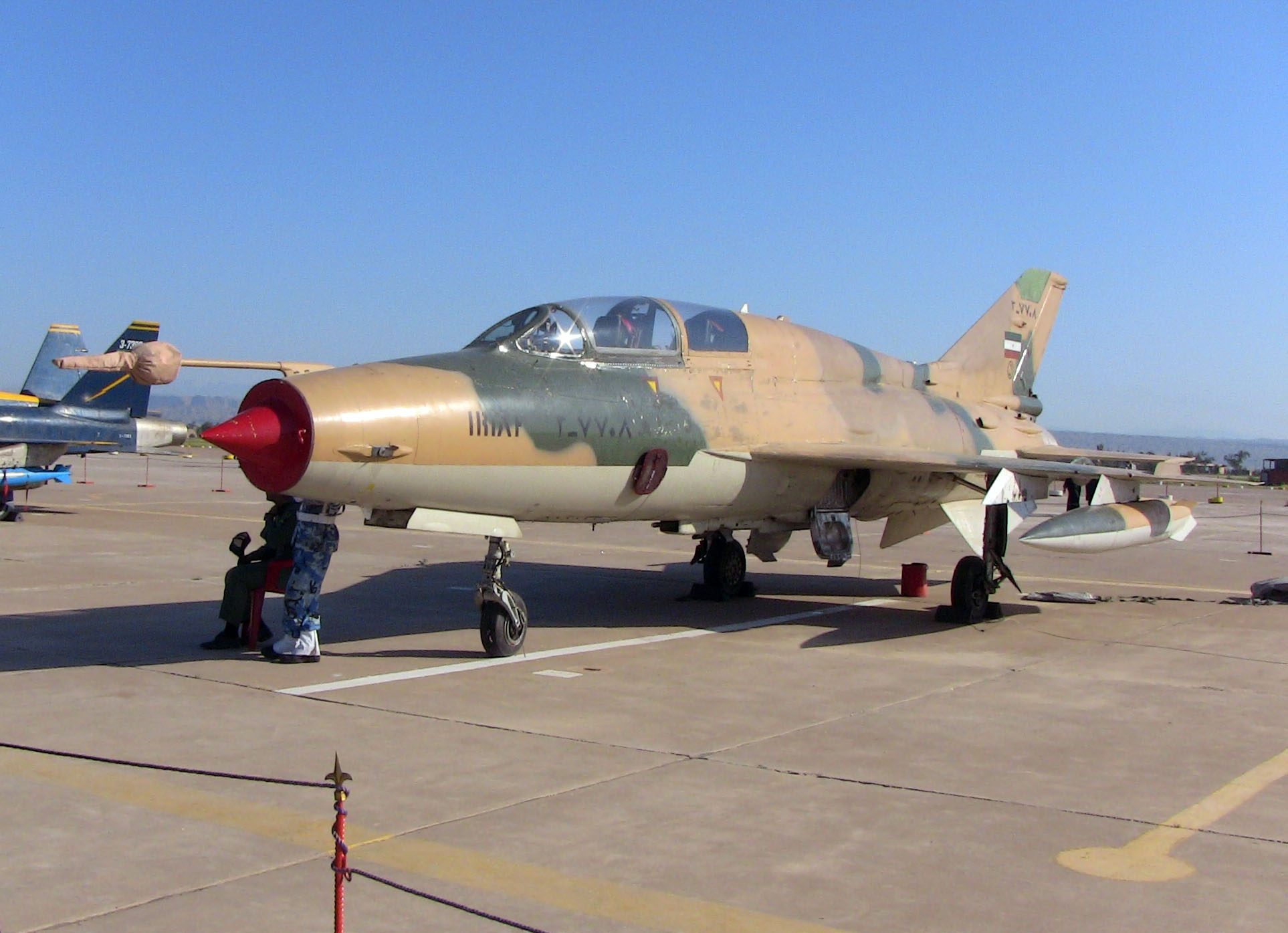 An Islamic Republic of Iran Air Force F-7 Airguard in Vahdati Airbase Air Show.